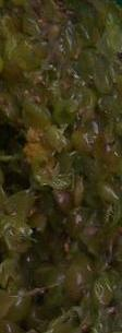 Image of pomace from Chardonnay grapes left in bladder wine press. Photo taken at Mountain Homebrew in Kirkland, WA on October 14th, 2007.